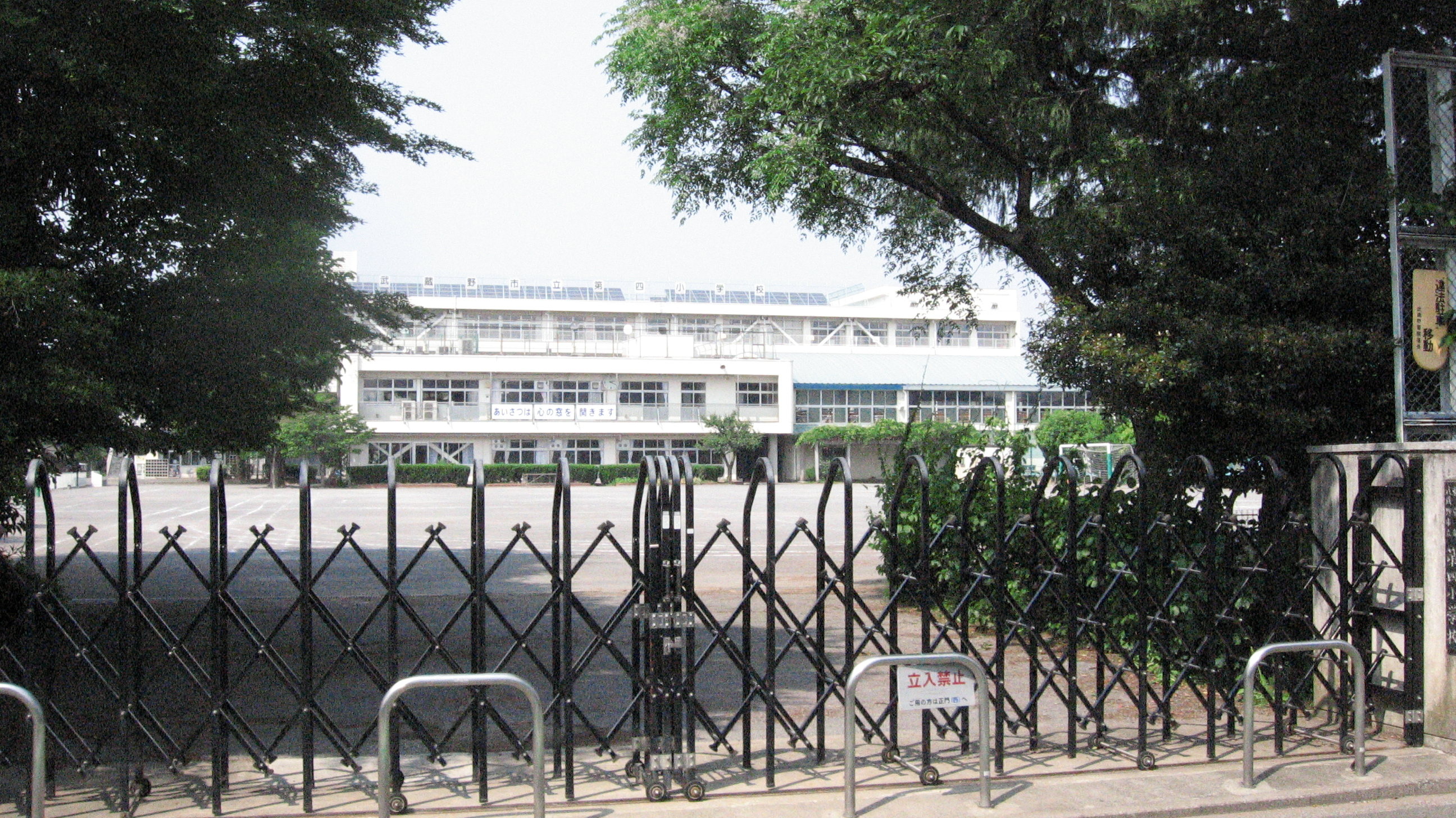 Musashino 4th Primary School